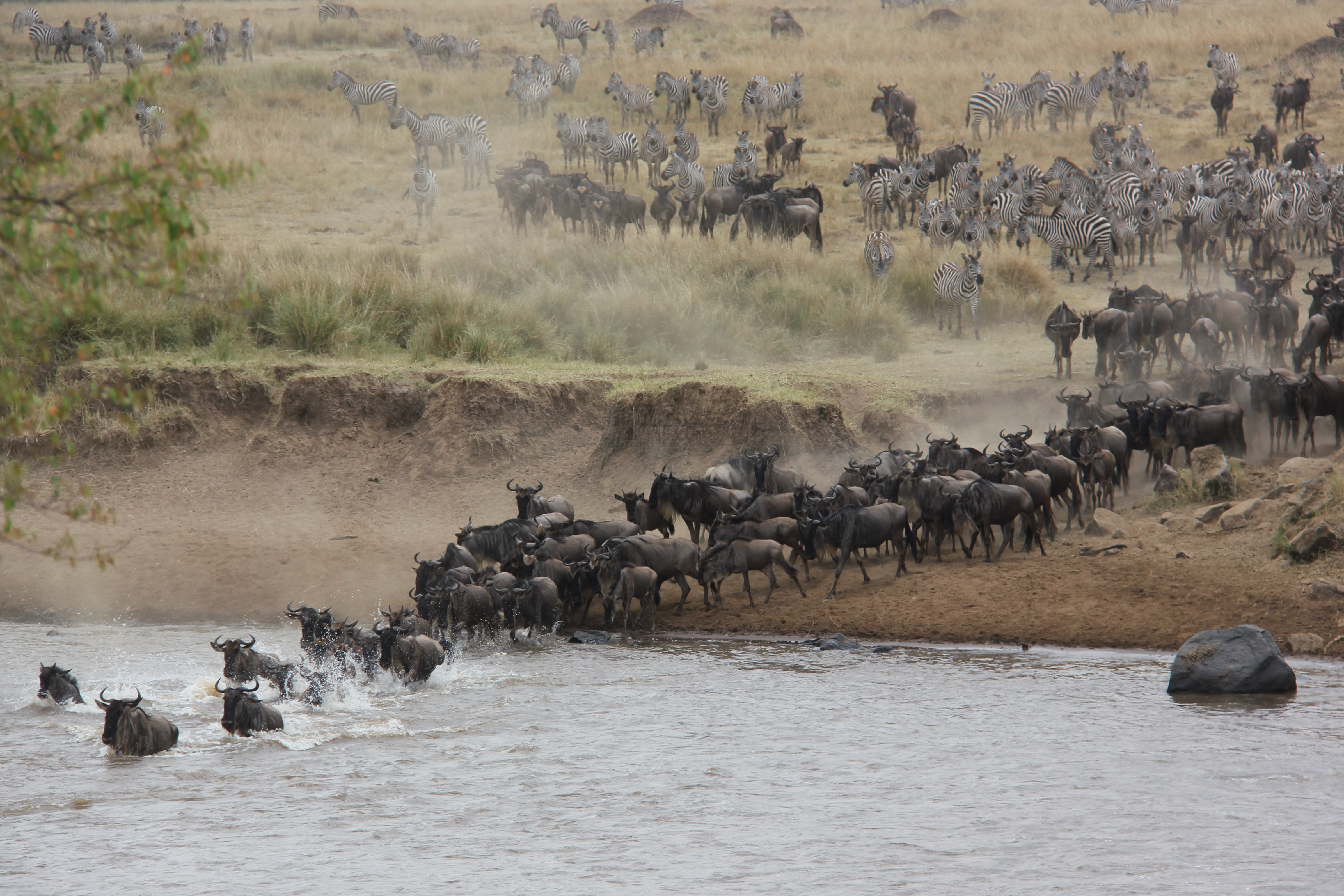 River Crossing